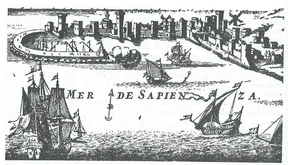 castle of Methoni (Modon), Messinia, Peloponnese